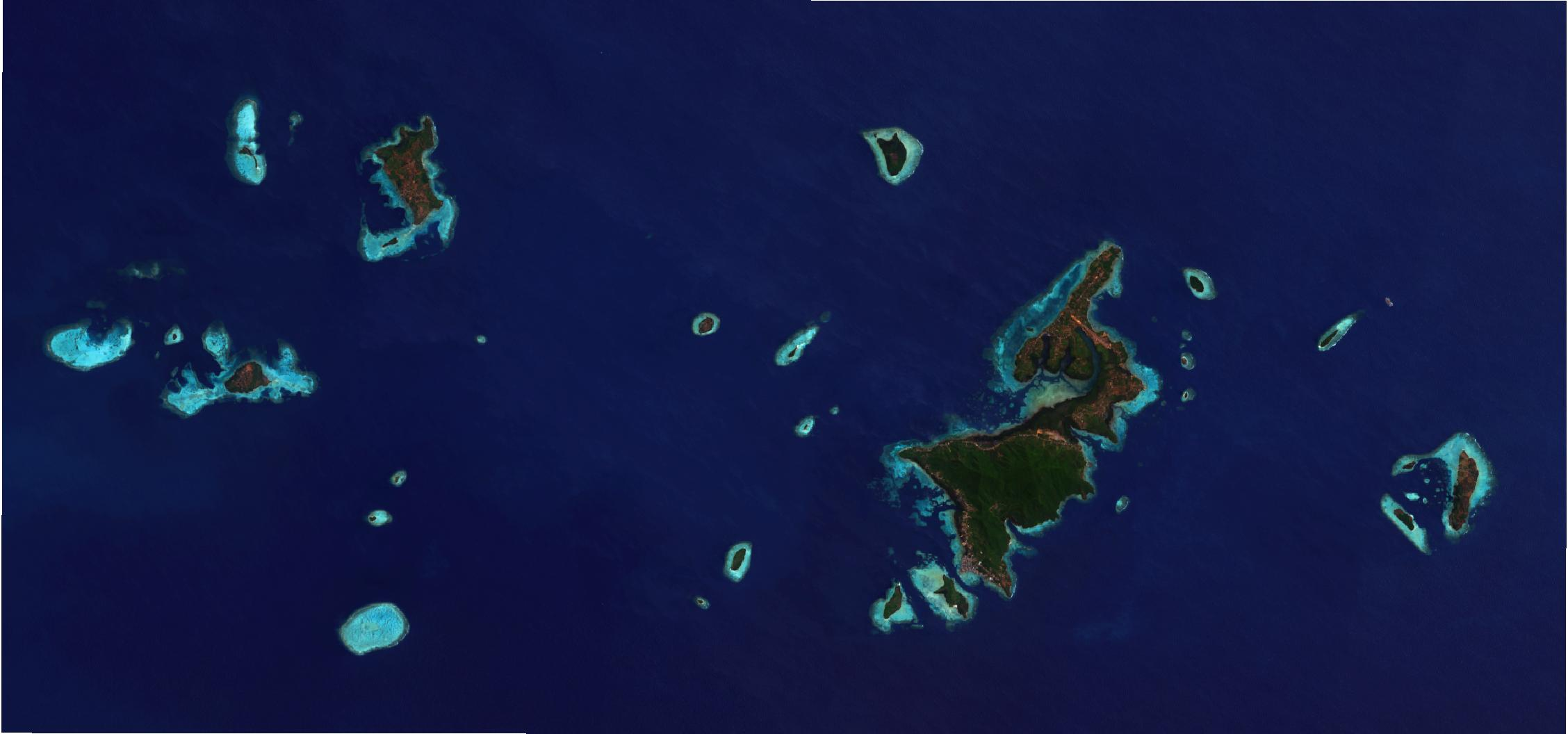 Landsat 8 top-of-atmosphere image of Karimunjawa Islands on 2019-09-13. Brightnes and saturation was enhanced using QGIS.